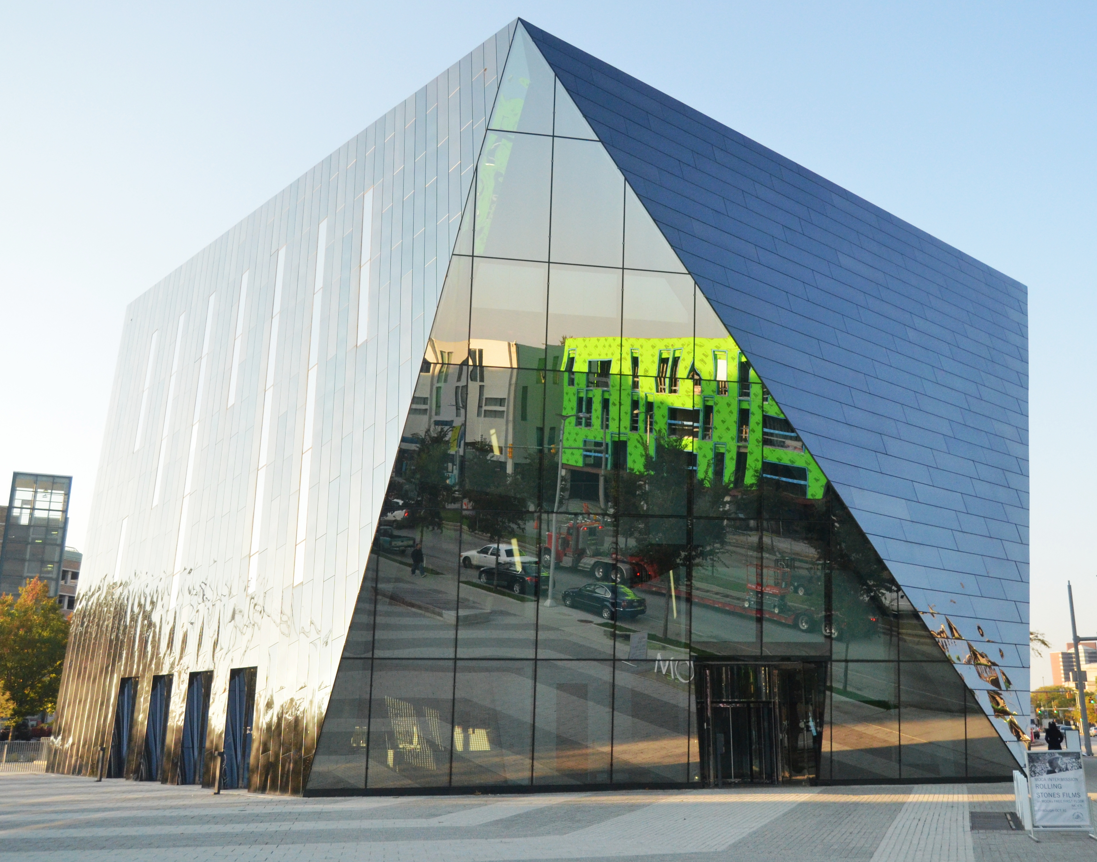 The Museum of Contemporary Art Cleveland, reflecting nearby apartments under construction